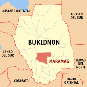 Map of the Bukidnon showing the location of Maramag